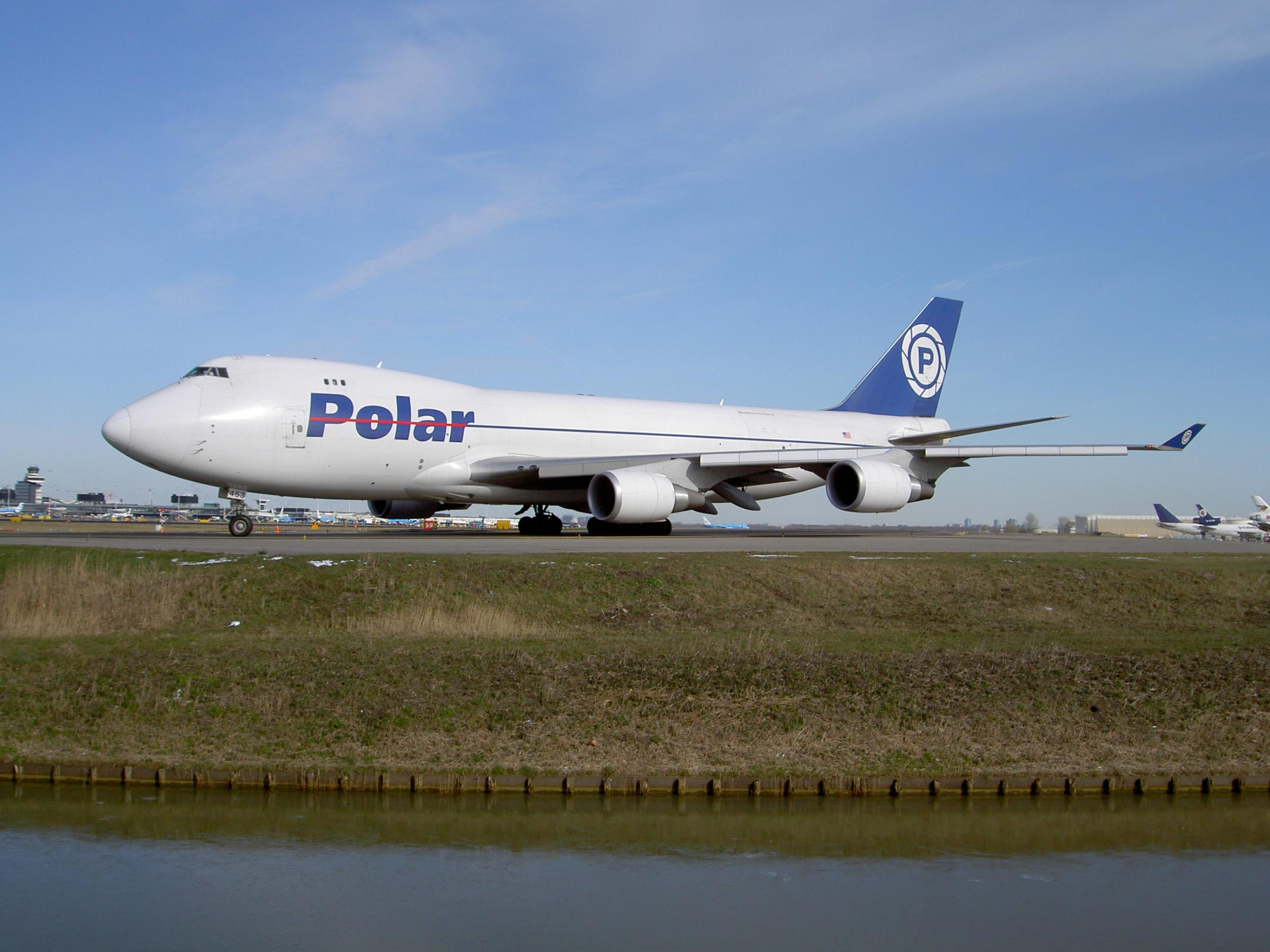 Photographed at Amsterdam Airport, (Schiphol).